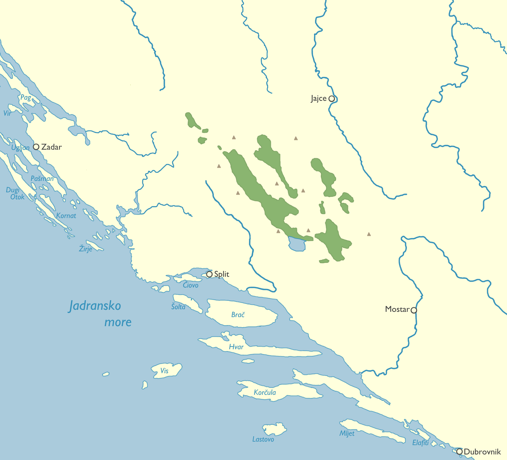 Region of Tropolje and Tropolje's karst fields